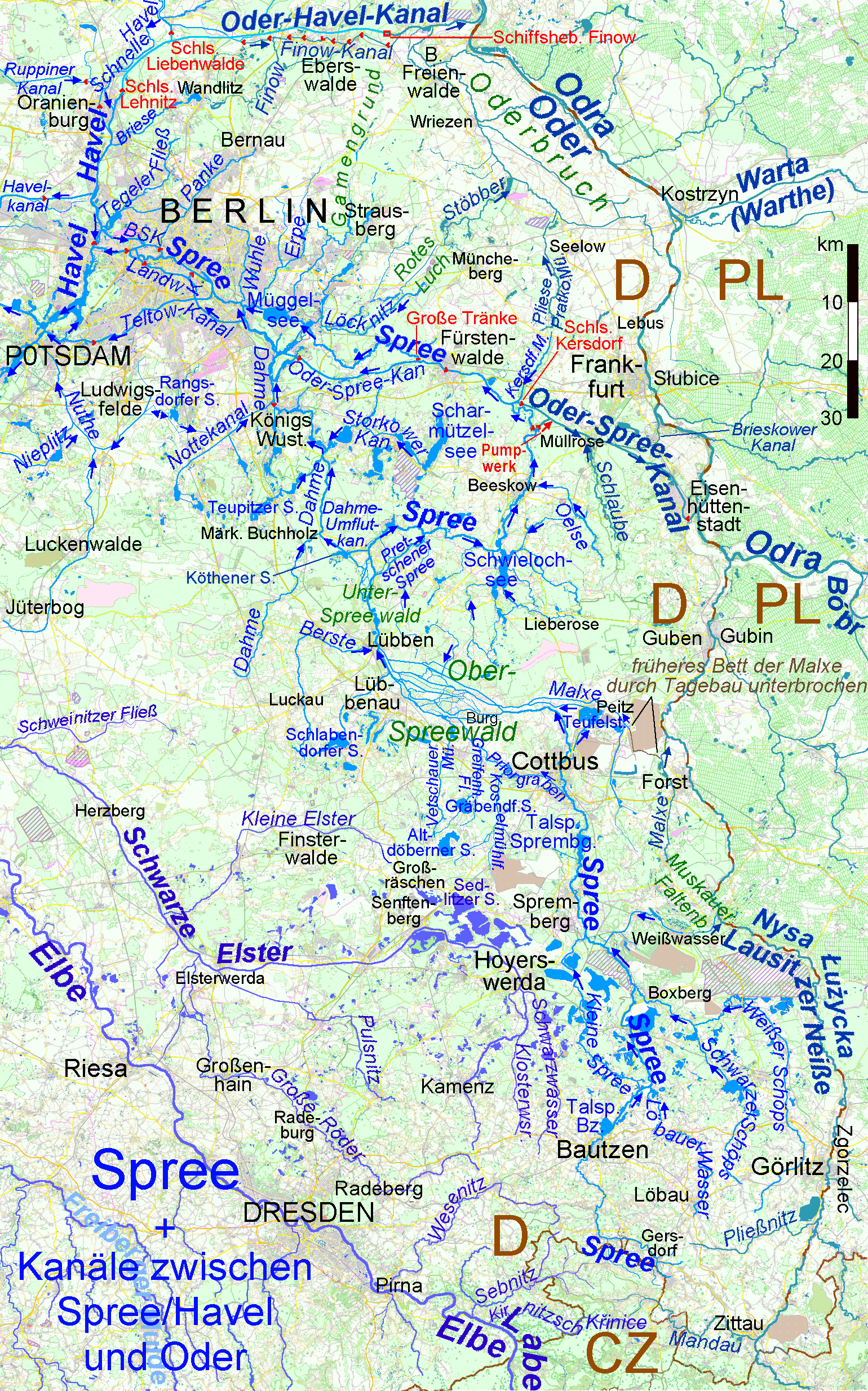 Map of Spree River with its natural and artificial affluents and branches. in addition the canals joining the Spree & Havel river system to Oder River